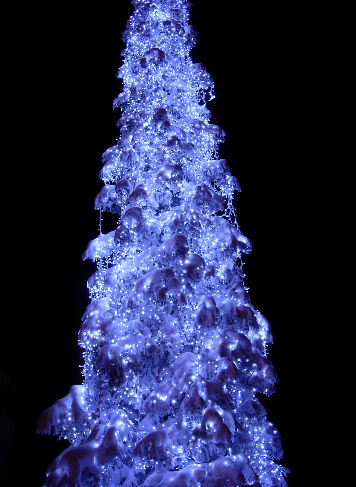 Taken at Santa Claus' Village in Rovaniemi